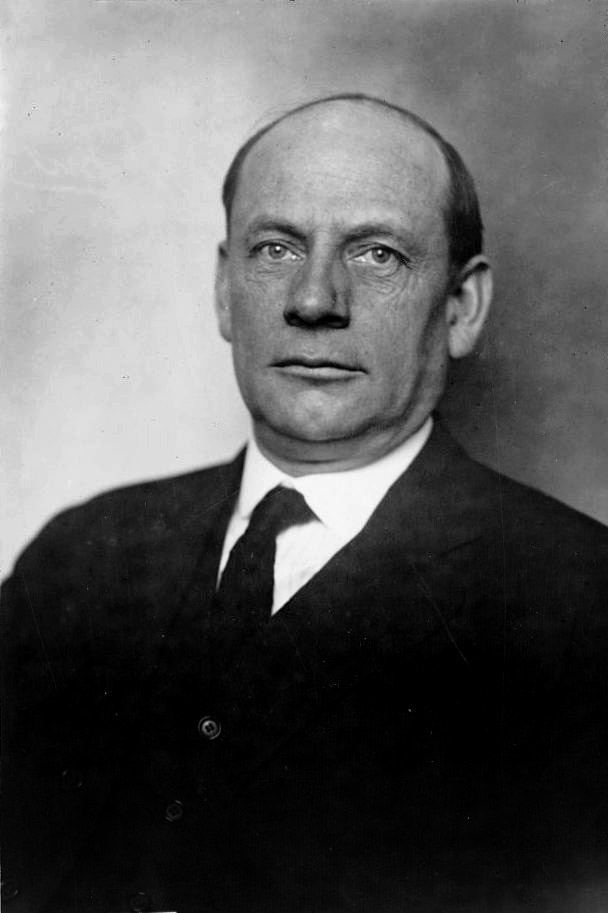 Richard N. Elliott, representative, Indiana, half-length portrait, facing front